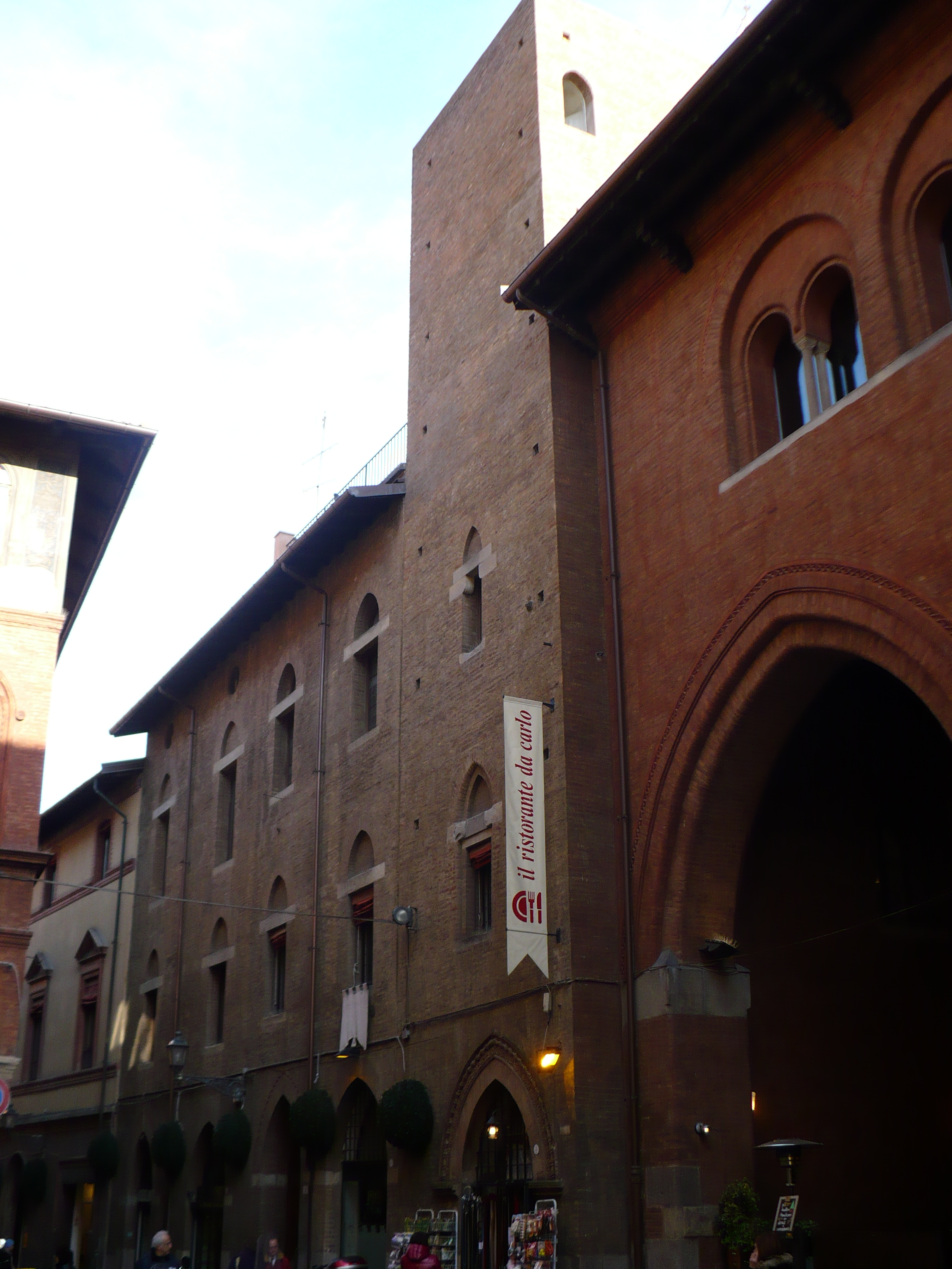 Image of Carrari's Tower